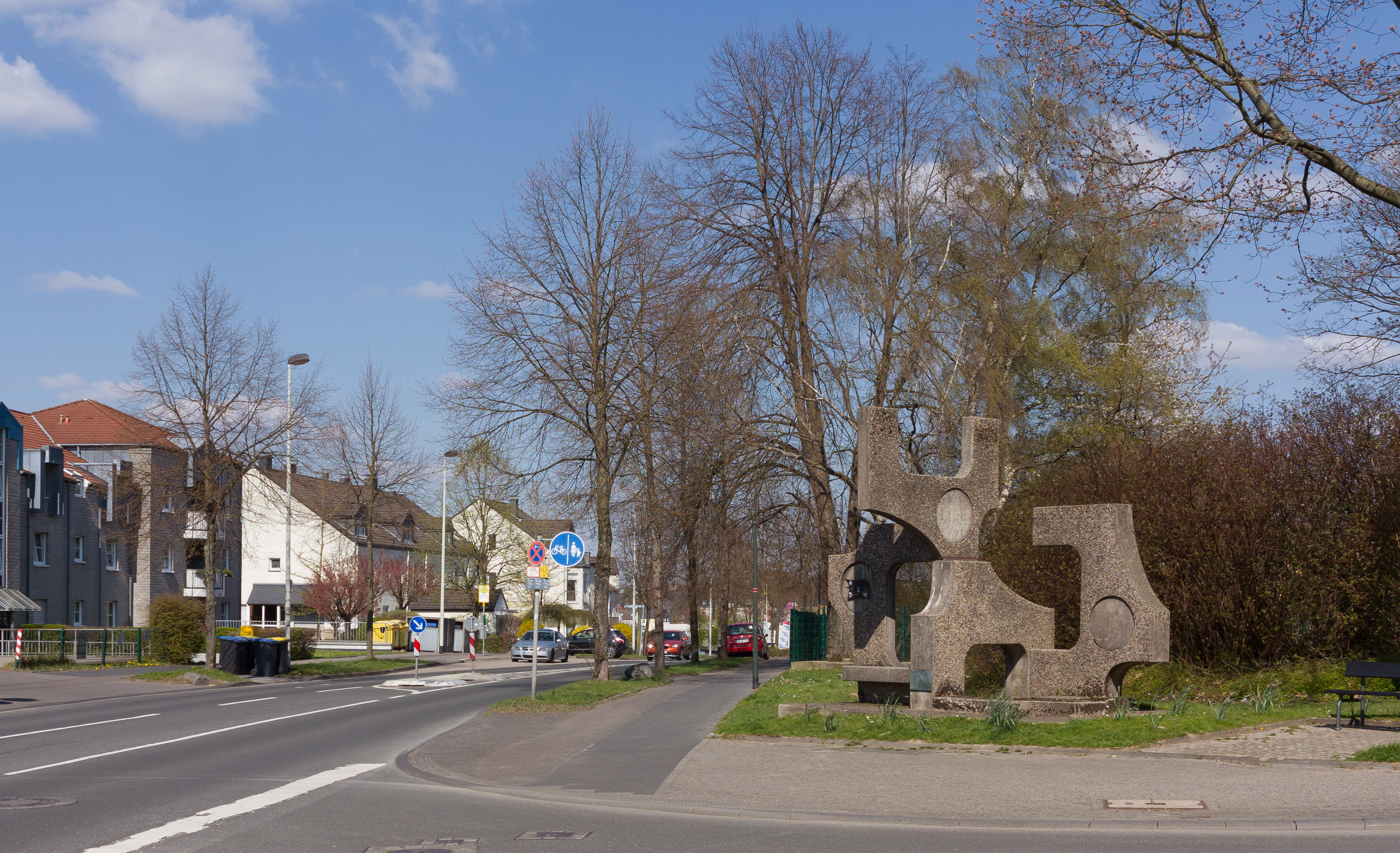 Solingen, sculpture Eicenstrasse - Unnersbergerallee